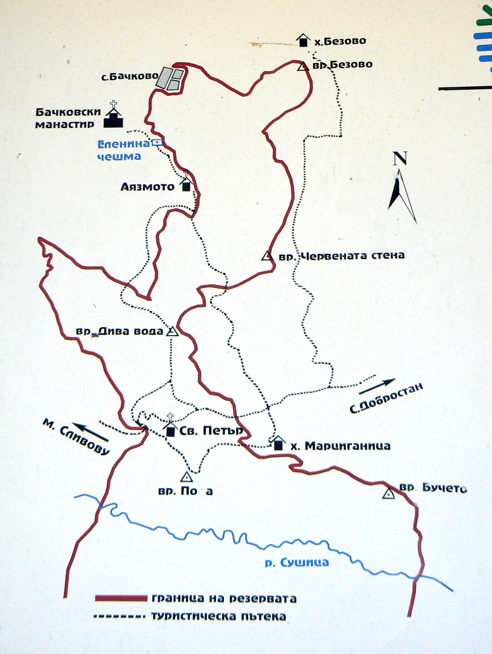 Map of the bioshpere reserve Chervenata stena (The Red wall) in the Rhodopes, Bulgaria